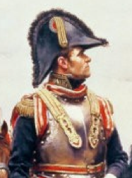 Detail from the painting entitled "A General of the First Empire", by Edouard Detaille, representing General of Division Jean-Louis-Brigitte Espagne (1769-1809), a cavalry general of the Napoleonic Wars.